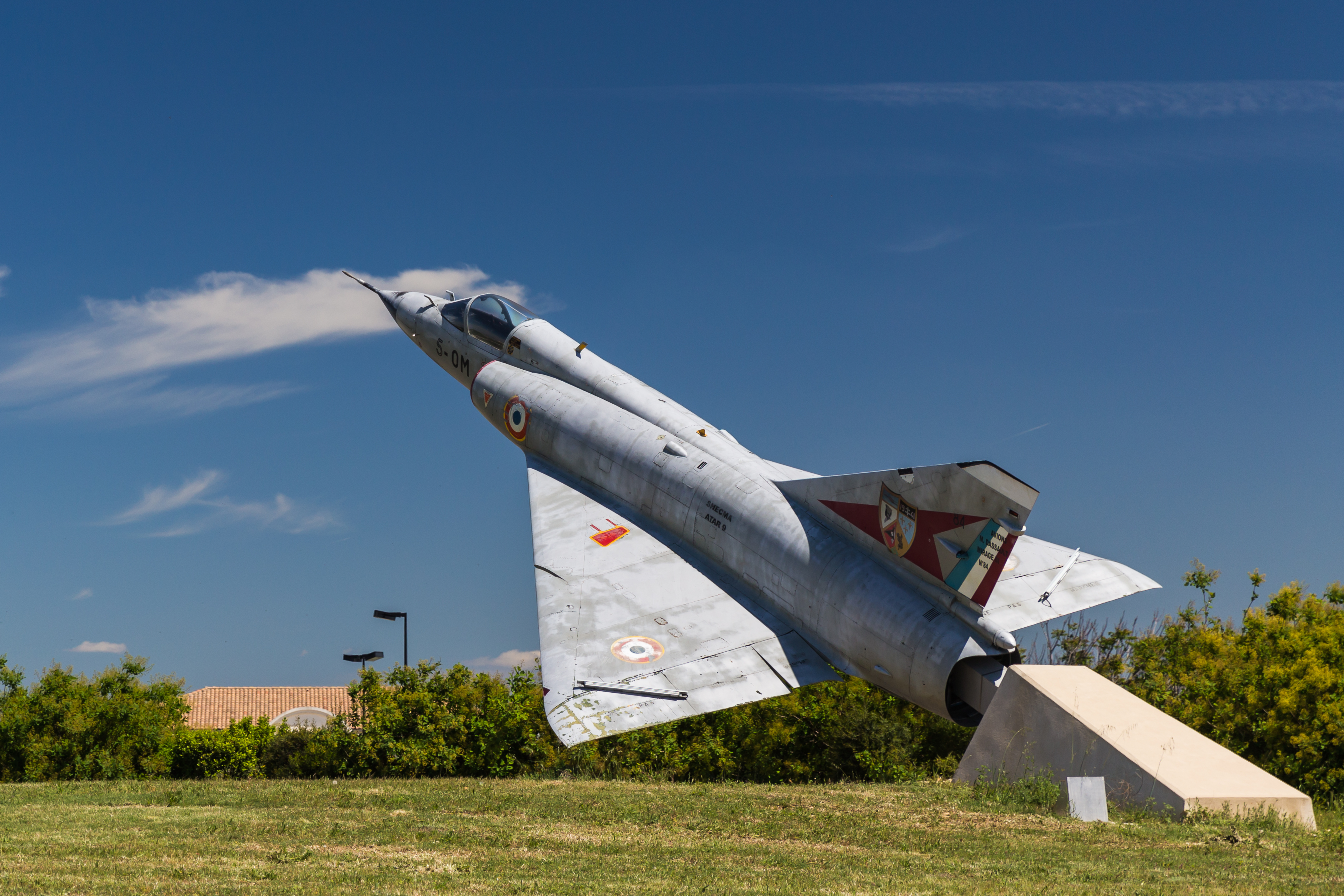 Dassault Mirage III disused on a roundabout in Orange, France.